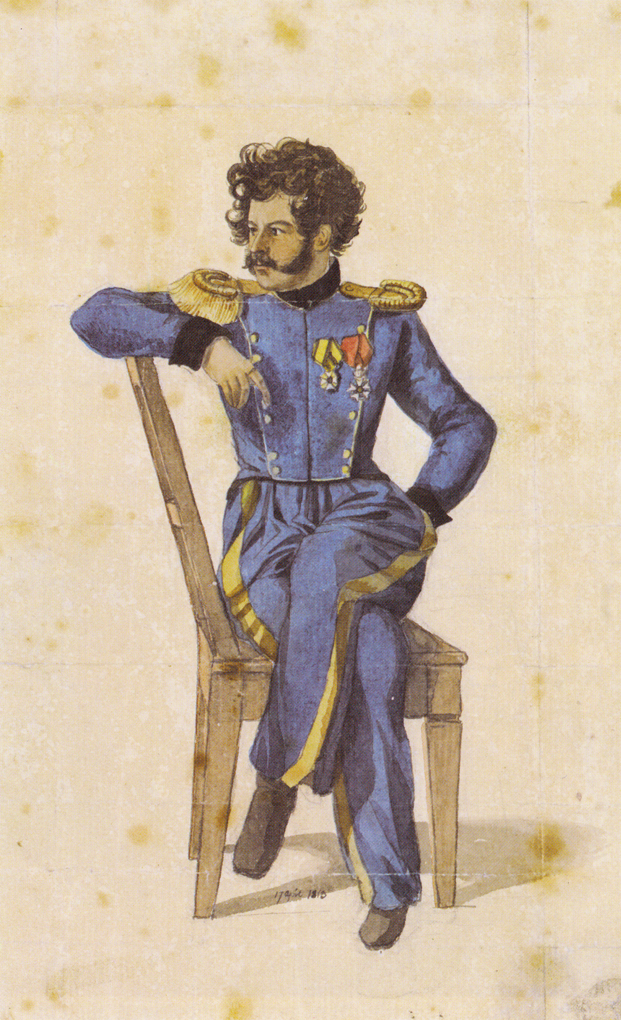 Christian Wilhelm von Faber du Faur portrait